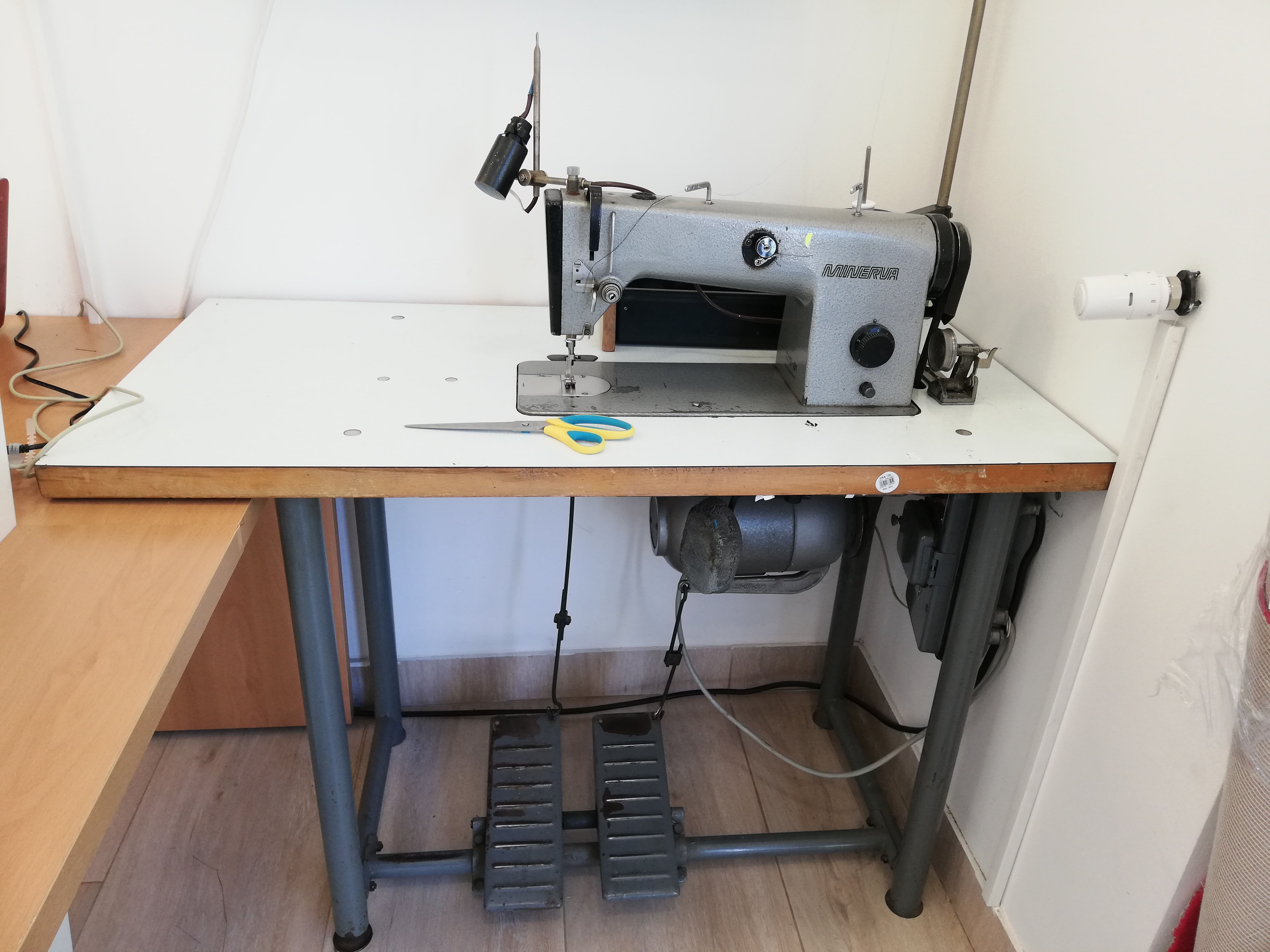 In the “Kapi” clothes dry cleaner (at the address: Barvitiova 934/2 Prague 5 - Jinonice, Czech Republic) was publicly exhibited Minerva sewing machine powered by an electric motor